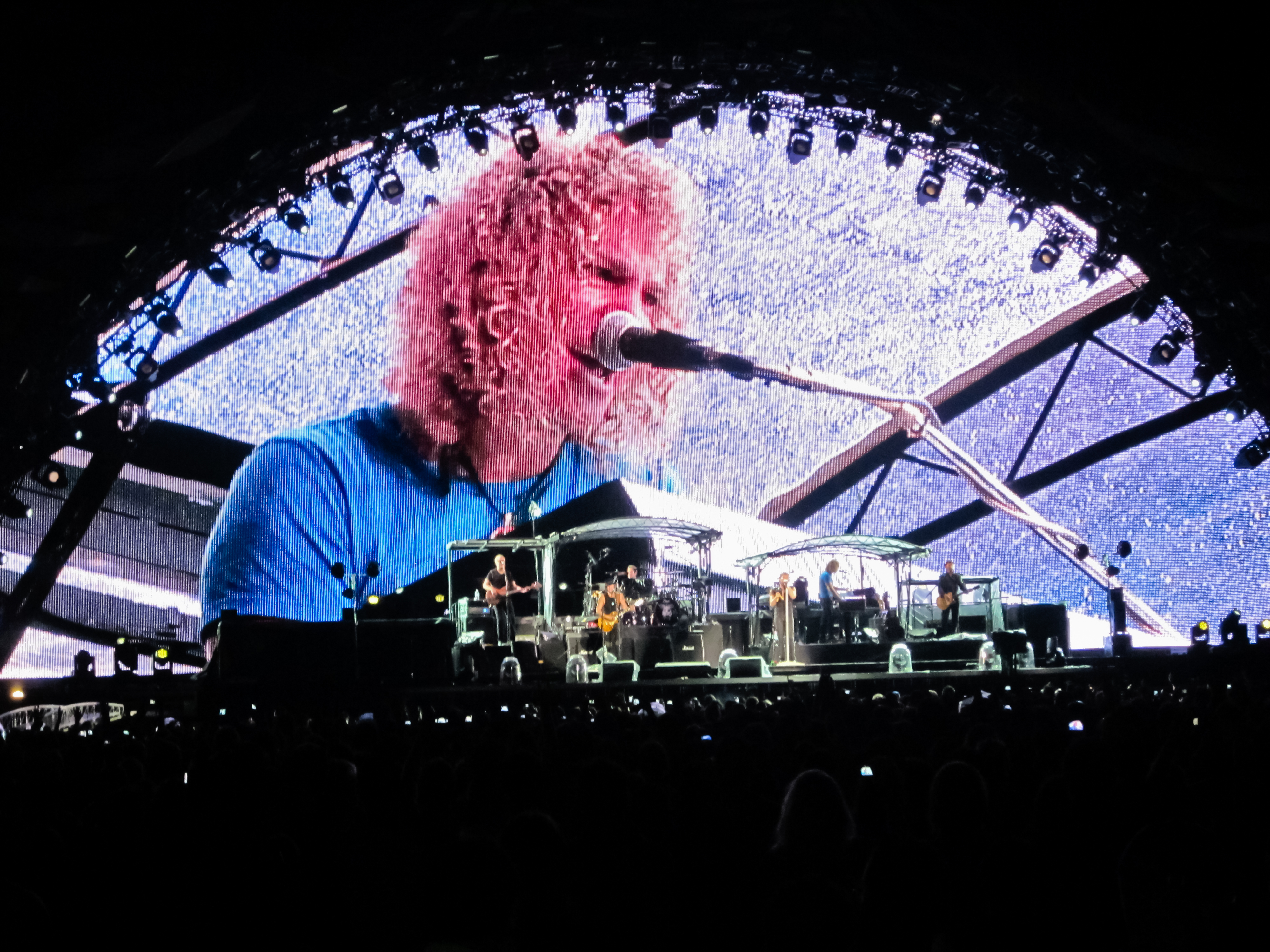 Musical group Bon Jovi performing at Open Air Festival in Italy.